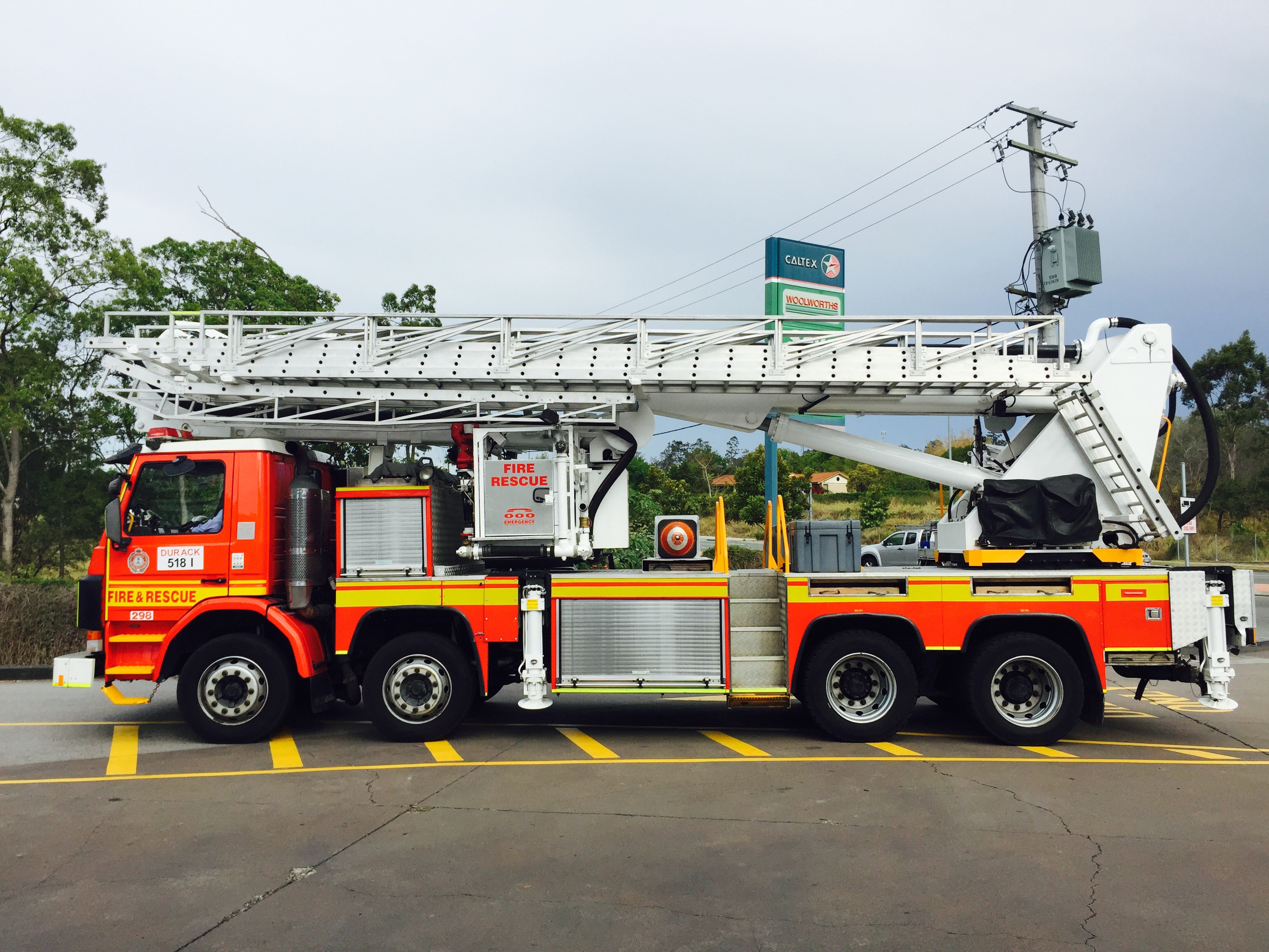 Fire engines of Queensland 2014